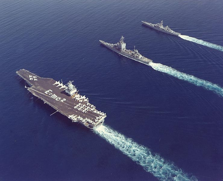 The U.S. Navy Task Force 1, consisting only of nuclear-powered surface ships, operating in formation in the Mediterranean Sea, 18 June 1964. The ships are the aircraft carrier USS Enterprise (CVAN-65), at left; the guided-missile cruiser USS Long Beach (CGN-9), in center; and the guided-missile cruiser USS Bainbridge (DLGN-25), at right. USS Enterprise crewmembers are spelling out Albert Einstein's equation for nuclear energy on the flight deck.